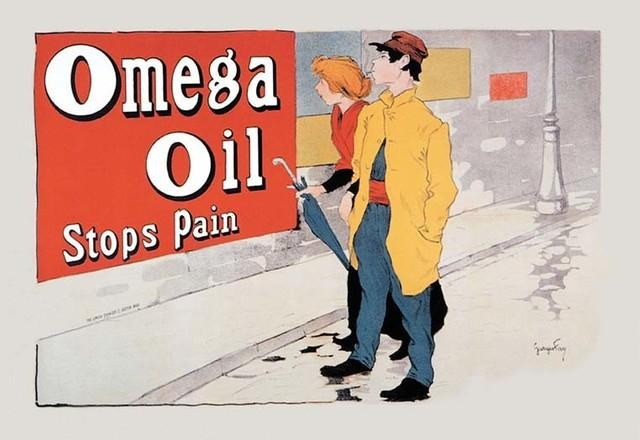 Omega Oil Stops Pain, poster signed by Georges Fay, printed in London [?].